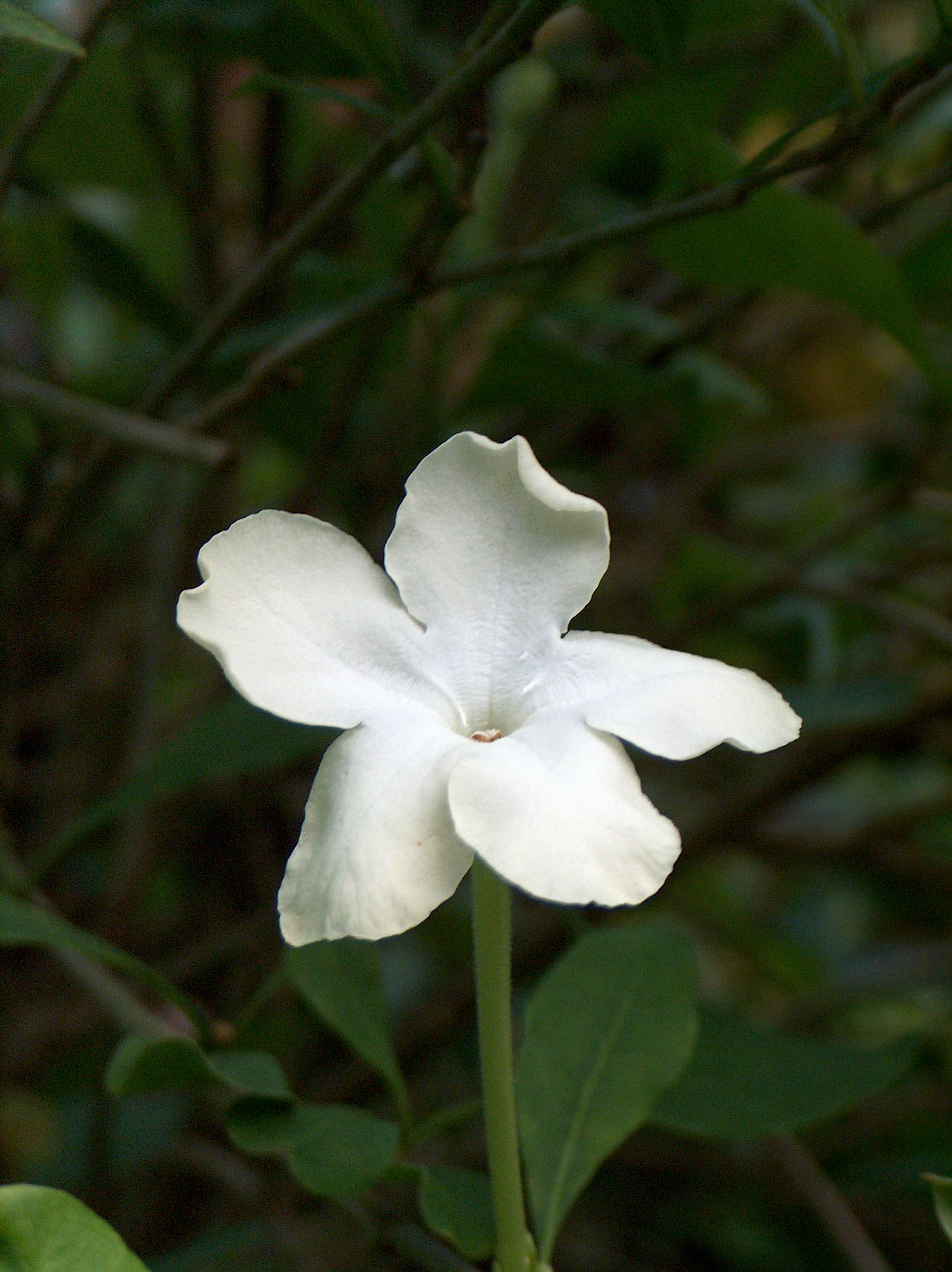 Flower of Brunfelsia americana L.